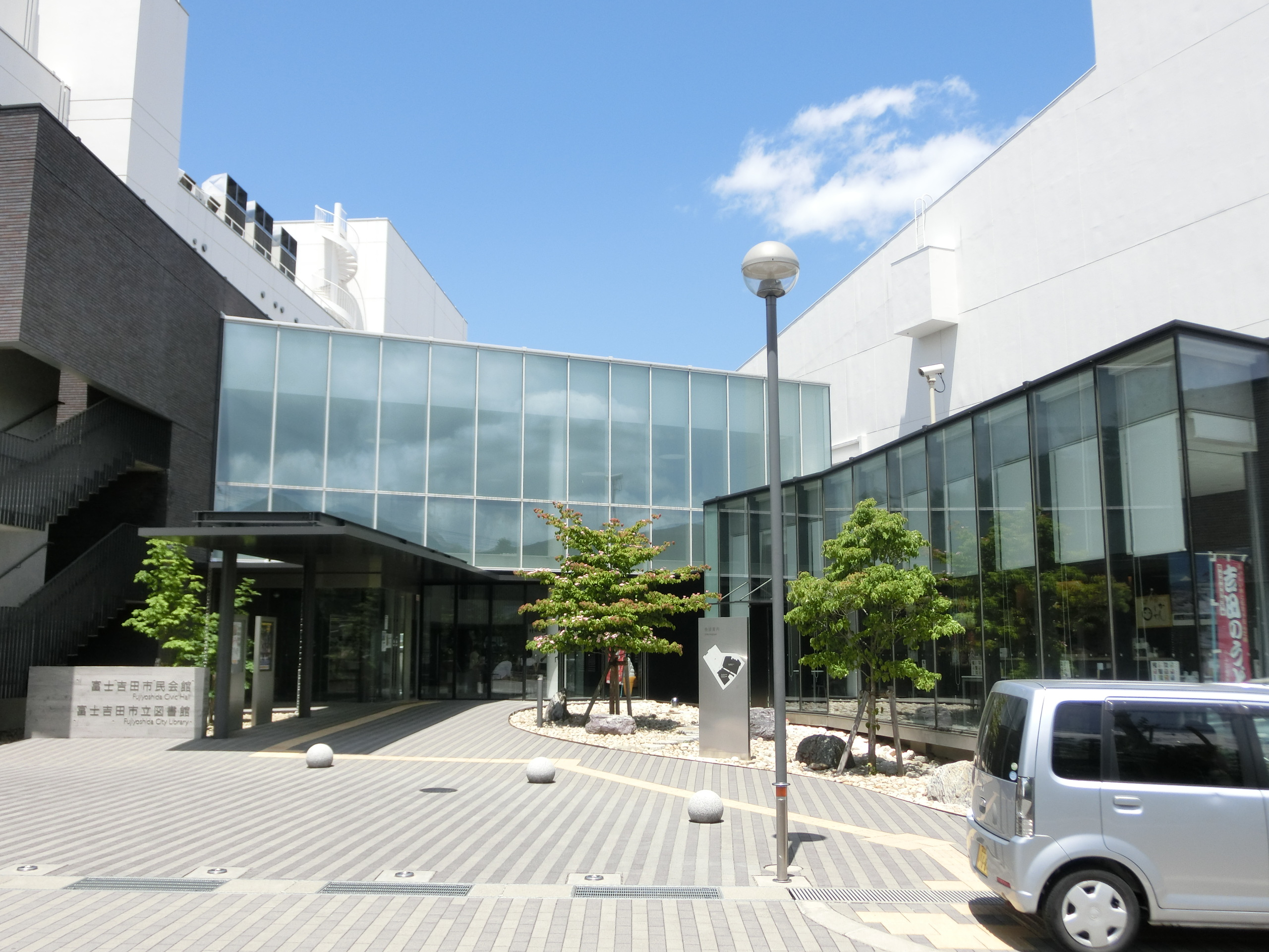 Fujiyoshida Civic Hall